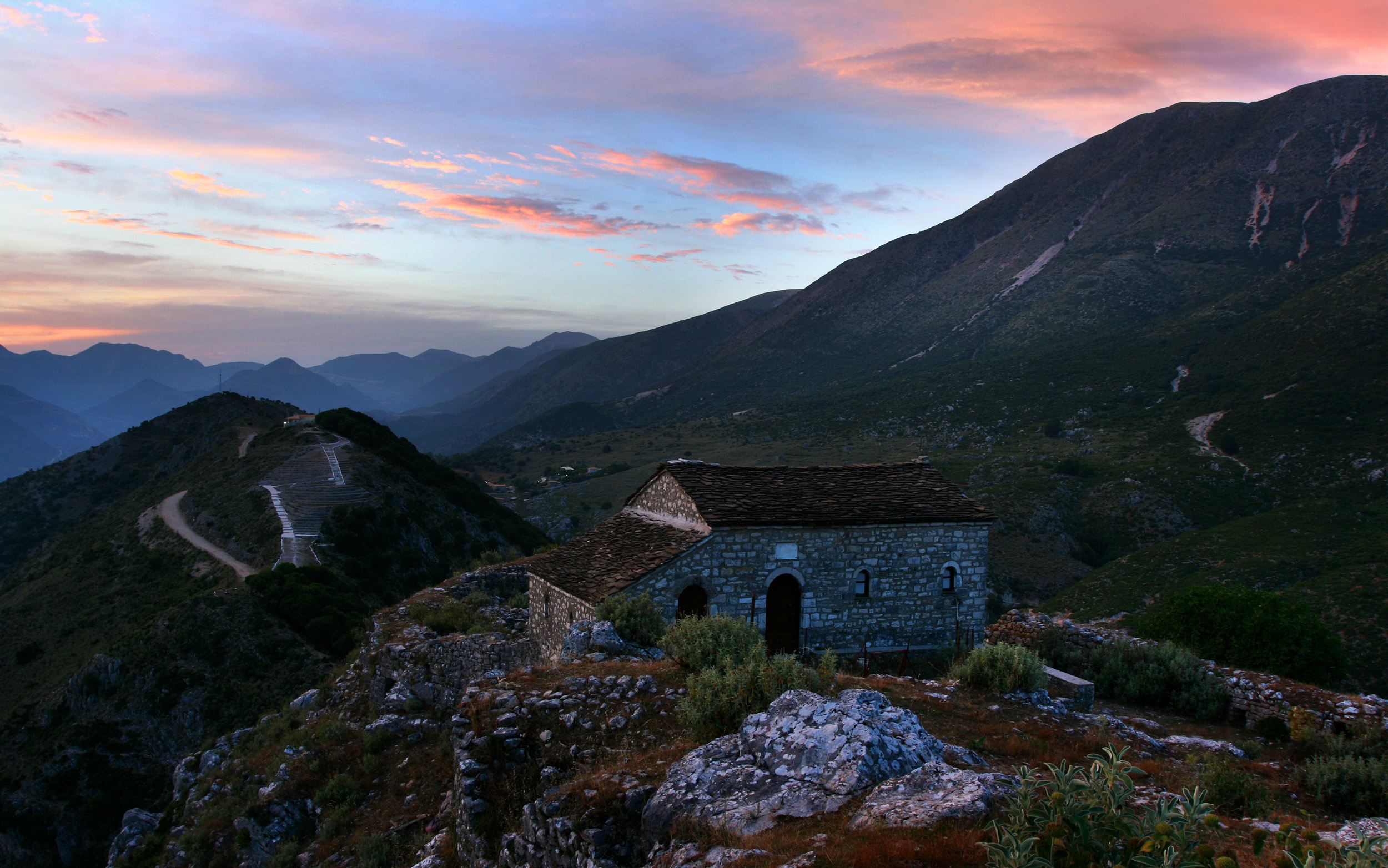 This is a photography of Natura 2000 protected area with ID GR2120008